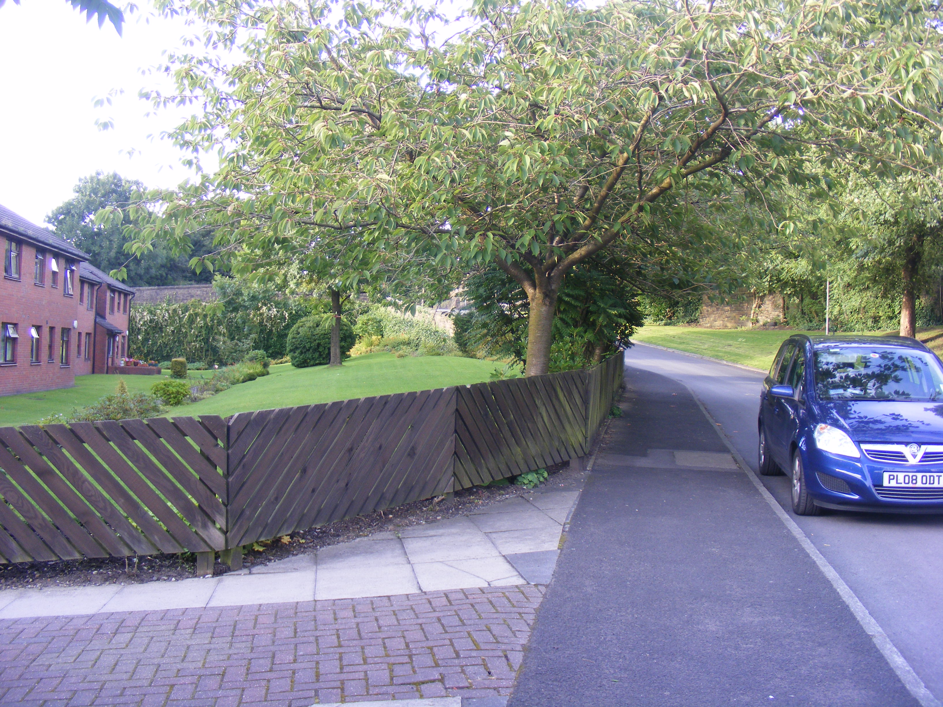 Site of Whitworth railway station 2009, near to Whitworth, Lancashire, Great Britain. Looking northwards, the railway and station would have been where the buildings are on the left. To the right of these buildings is what used to be a bridge.